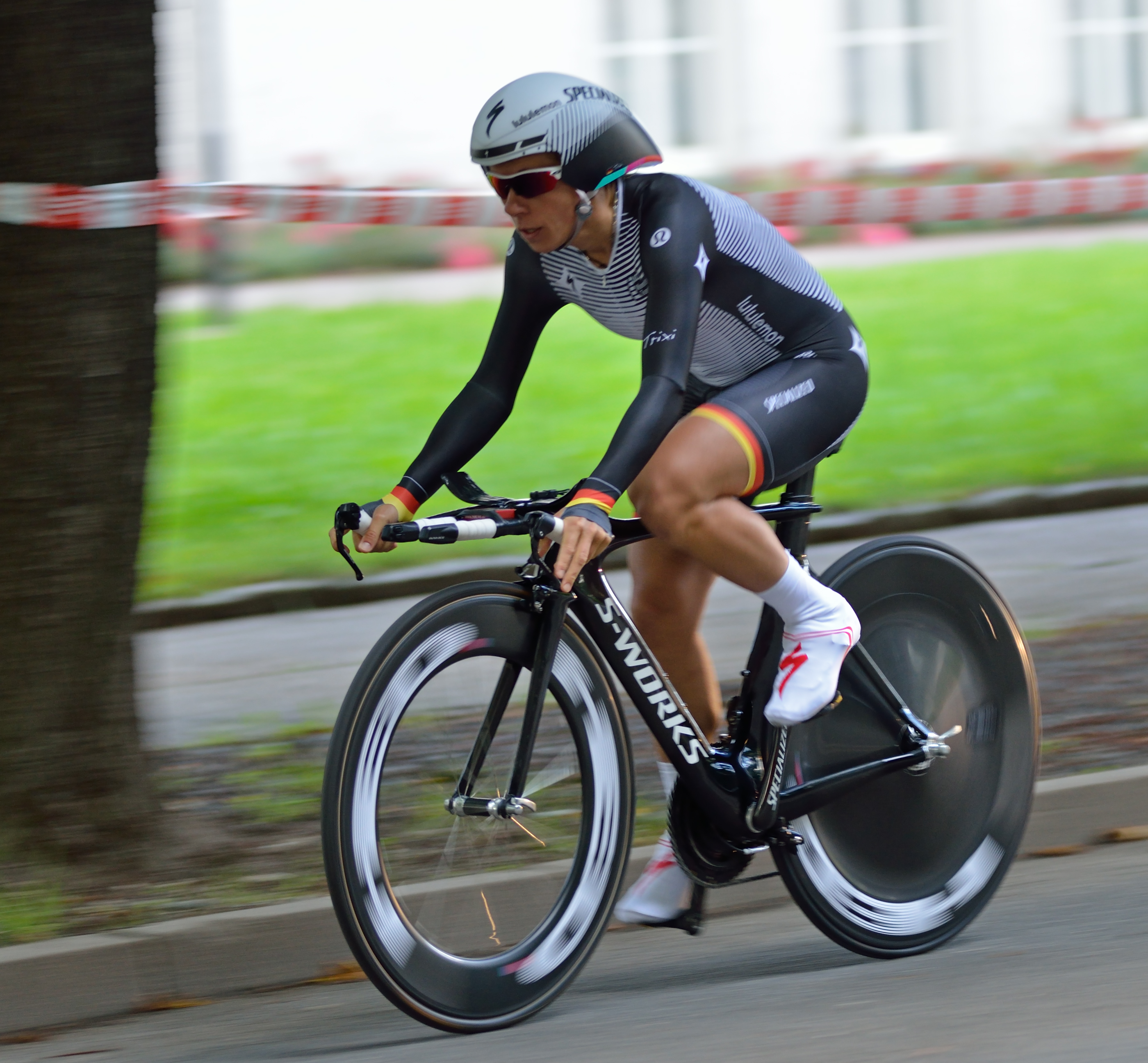 Trixi Worrack from the Specialized-lululemon team during the Women's Tour of Thuringia 2012 in Zwickau, Germany.